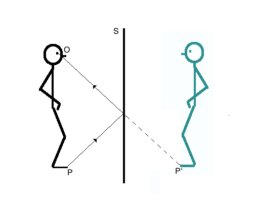 Person standing before mirror